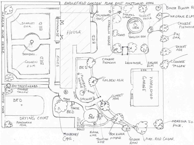 Englefield, East Maitland: Property layout